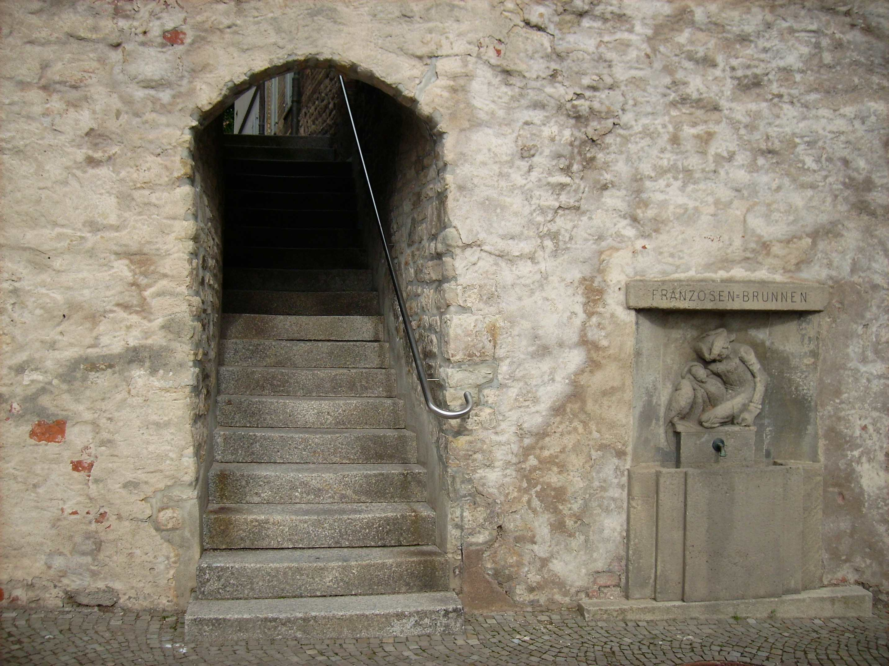 Frenchman's Fountain and flight of steps towards Grüne Strasse, Merseburg (district of Saalekreis, Saxony-Anhalt)